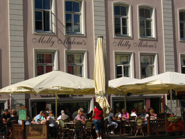 Molly Malone Pub